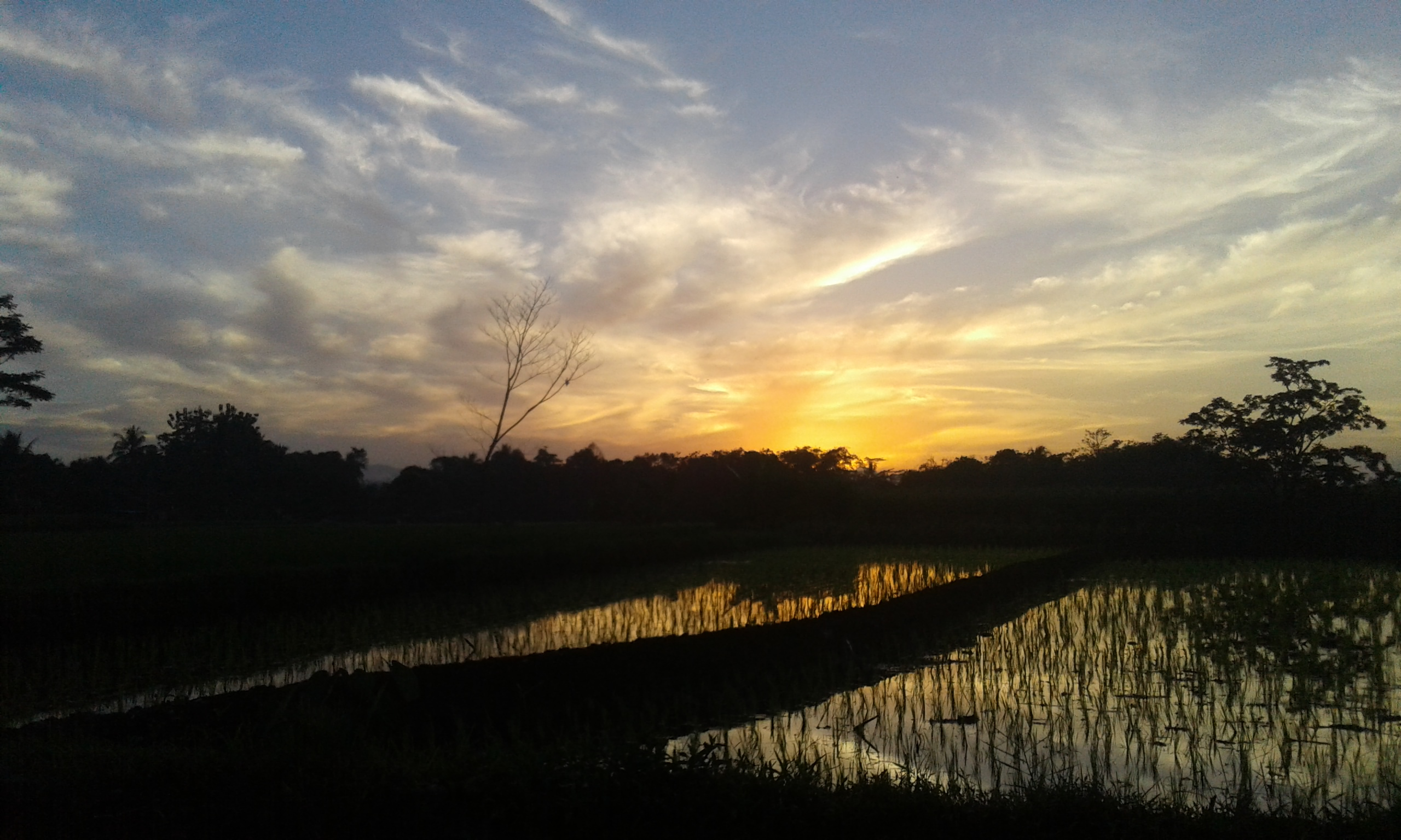 Sawah punika wonten ing tlatah Desa Karanggintung Kec.Sumbang Kab.Banyumas. Gambar punika dipundhut wekdal dinten liburan, enjing-enjing kula lan kancanipun jogging muter desa caket desa kula.